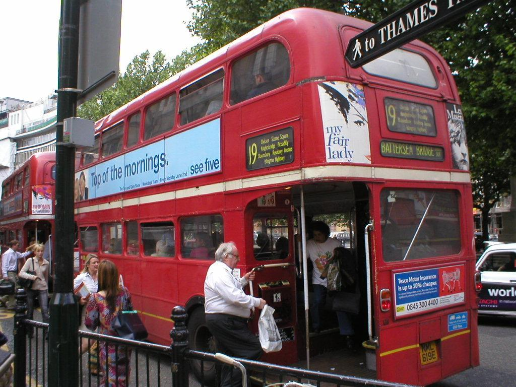 1967 Routemasters RML2619 in 2003.